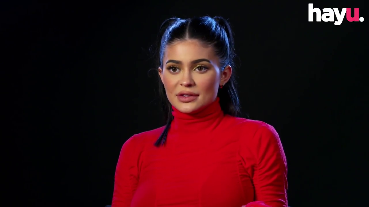 Kylie Jenner